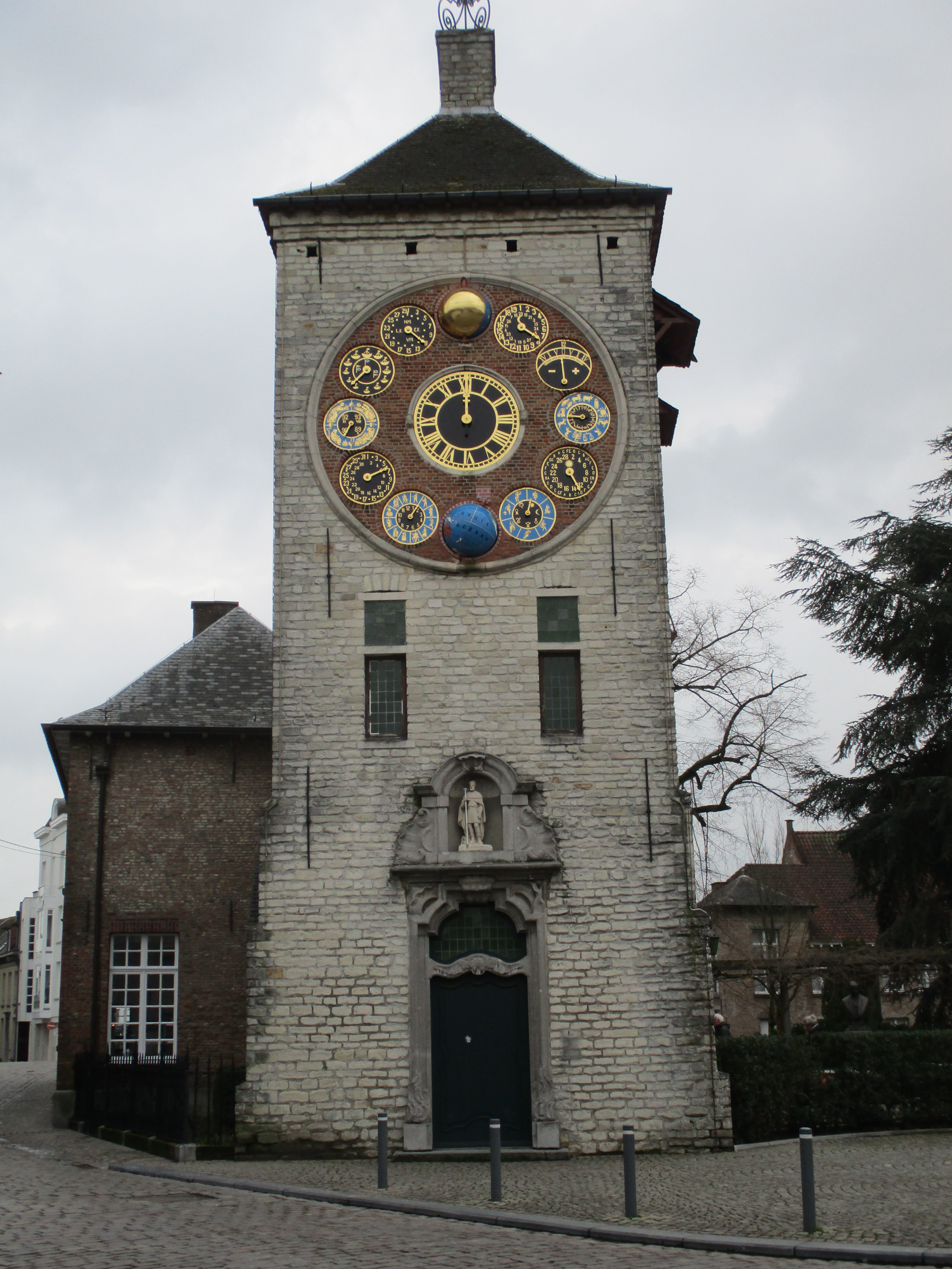 Front site Zimmer Tower Lier